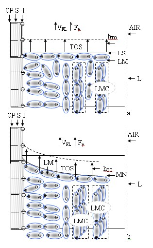 Molecular power 18. mechanism of wetting the surface of the vertical capillary due to the thermal oscillations of the near-surface liquid molecules